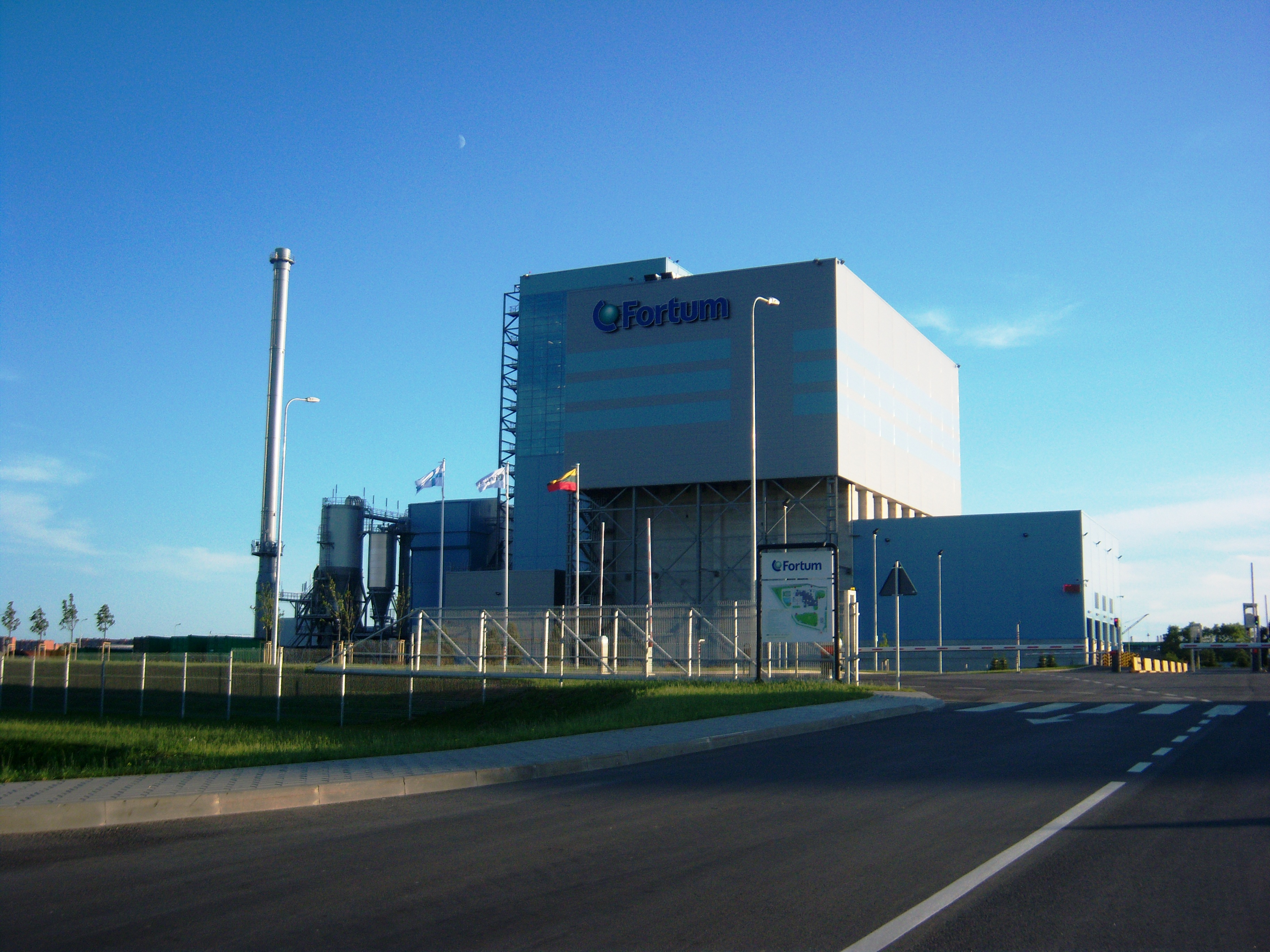 Combined heat and power plant of Fortum Corporation, Klaipėda, Lithuania